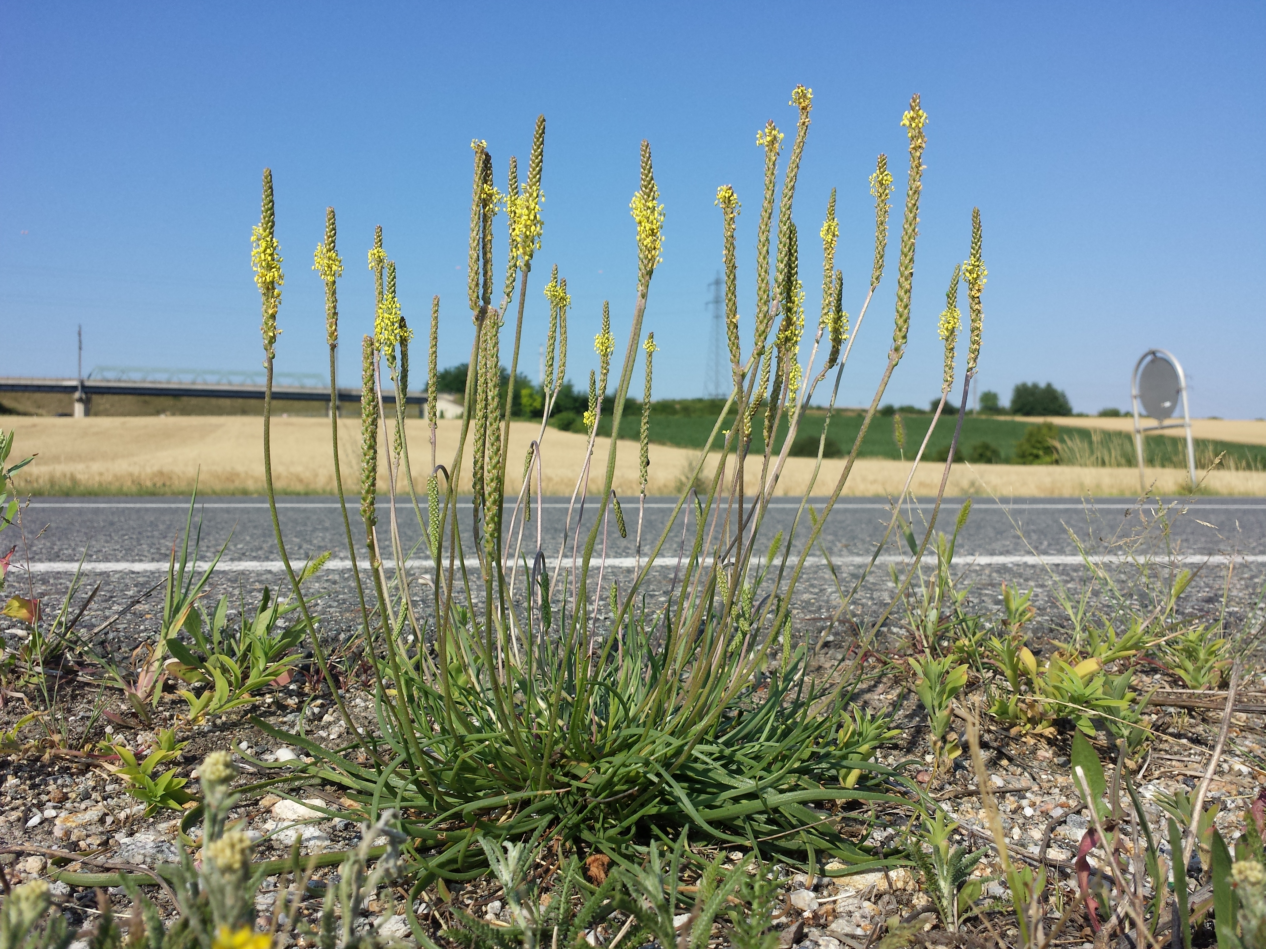 Habitus Taxonym: Plantago maritima ss Fischer et al. EfÖLS 2008 ISBN 978-3-85474-187-9 Location: next to Ziersdorf, district Hollabrunn, Lower Austria - ca. 225 m a.s.l. Habitat: salty verge